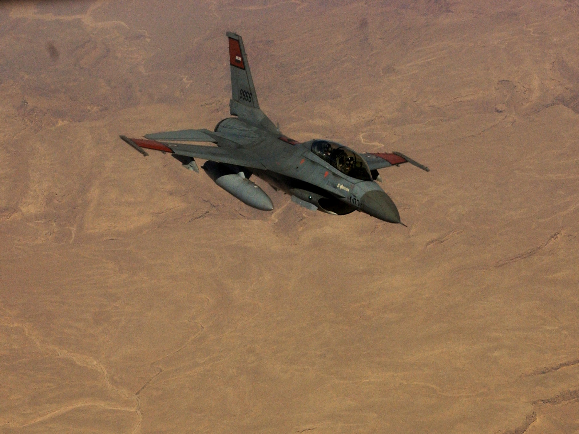 An Egyptian air force F-16 Fighting Falcon prepares to make contact with a KC-135 Stratotanker from March Air Reserve Base, Calif., during in-flight refueling training. A contingent of reservists from the 336th Air Refueling Squadron at March ARB are providing aerial refueling training for Egyptian pilots.